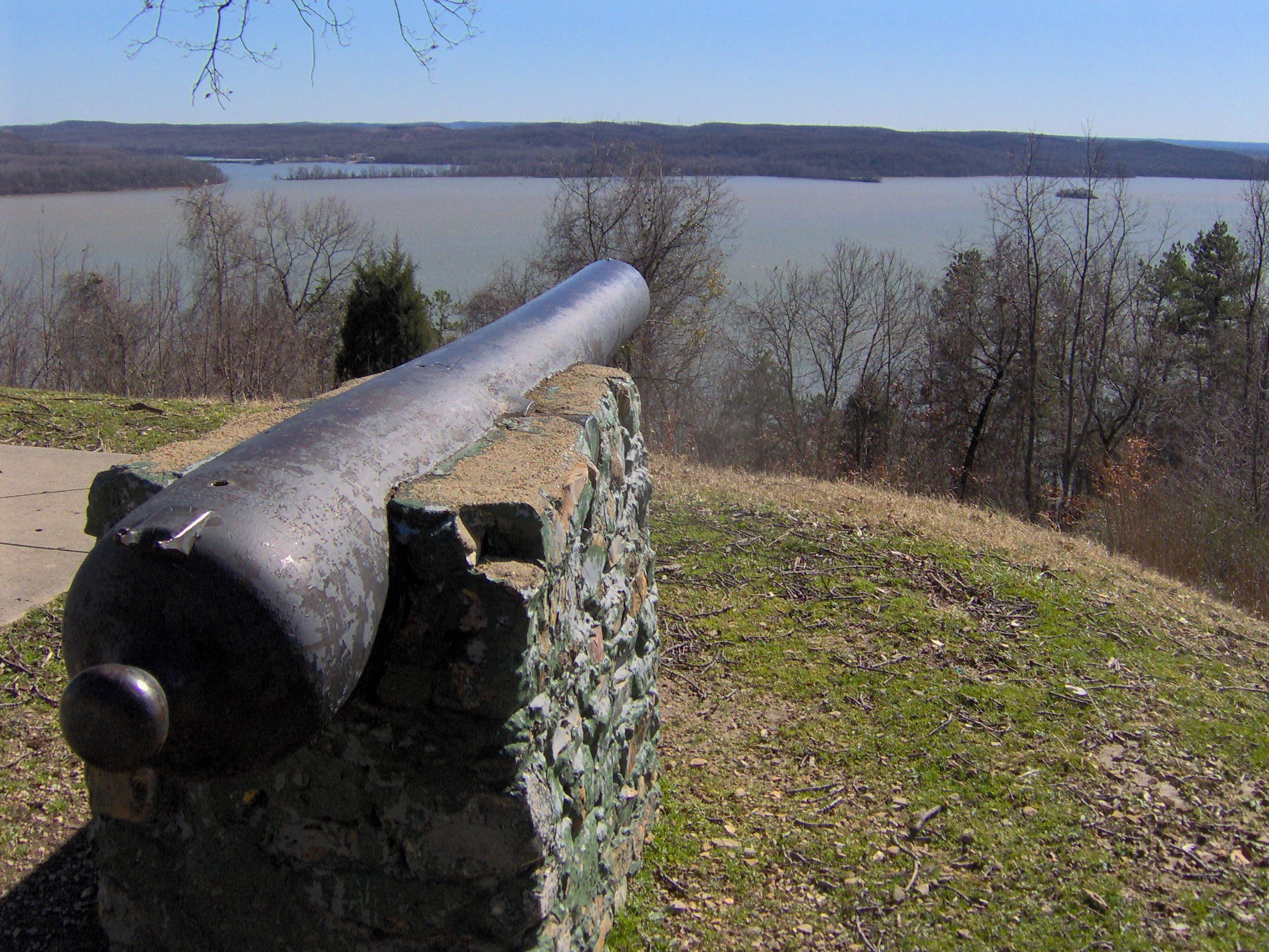 Cannon atop Pilot Knob aimed at the now-defunct site of Johnsonville (on the opposite bank of the river). The cannon is part of the monument commemorating the 1864 Battle of Johnsonville, in which Forrest destroyed a Federal supply depot at the Johnsonville site. The monument is maintained by Nathan Bedford Forrest State Park, which is located in Benton County, Tennessee, in the southeastern United States. The mouth of Trace Creek is visible on the opposite bank on the left (directly above the green tree).